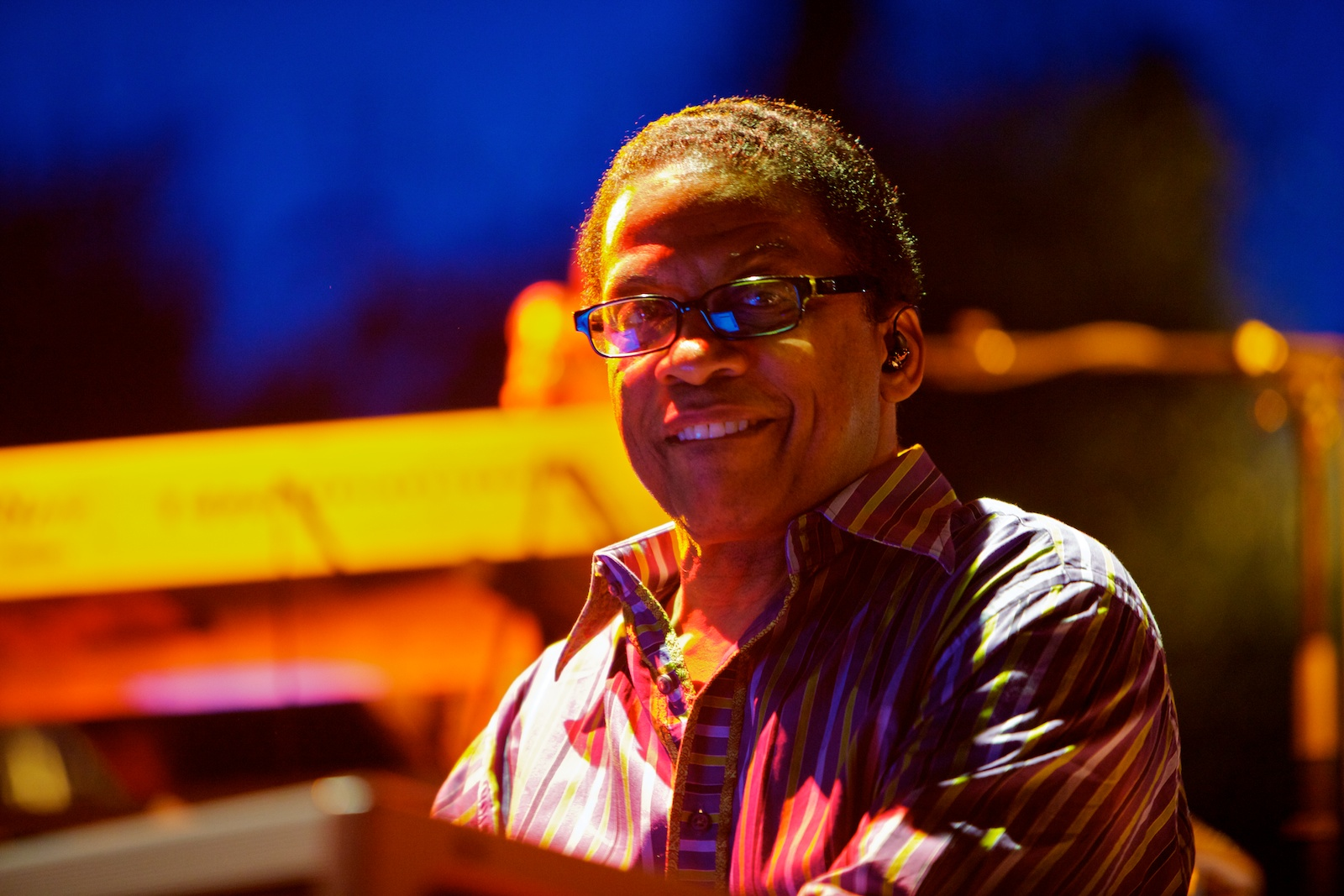 Herbie Hancock in concert at the Nice Jazz Festival 2010